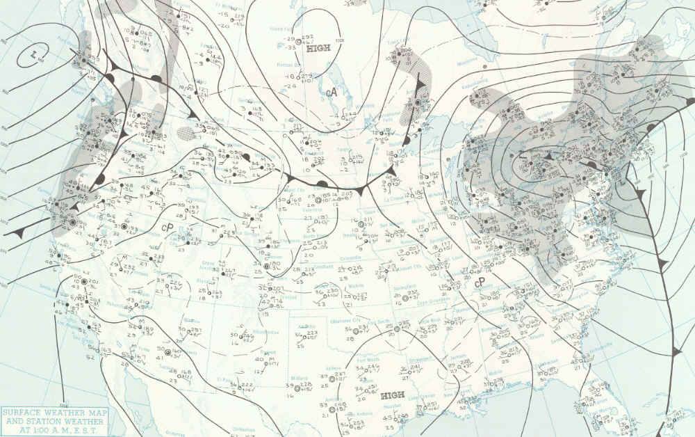 US Weather map at Midnight CST Jan 28, 1967 after the 1967 Chicago Blizzard.